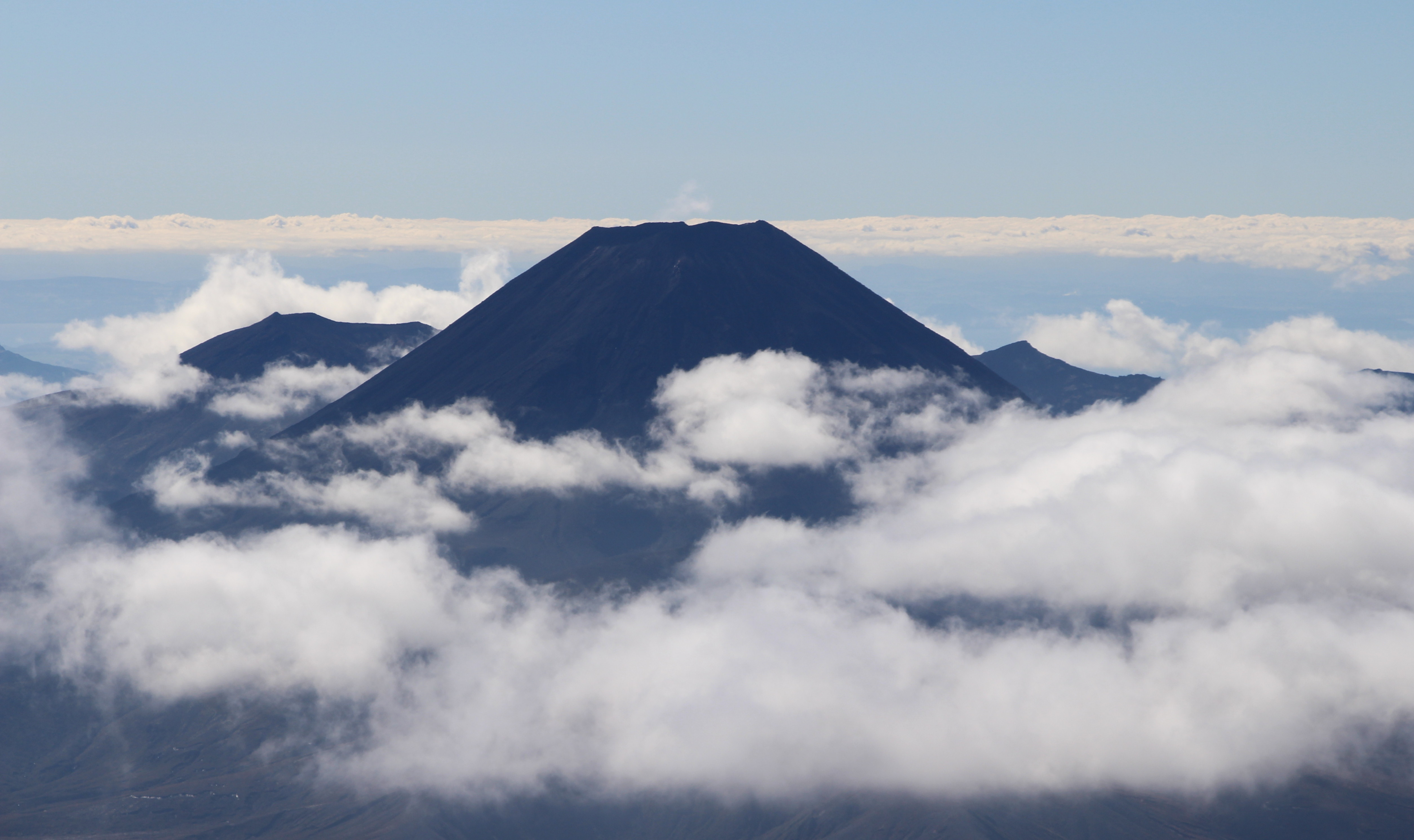 Ngauruhoe, New Zealand